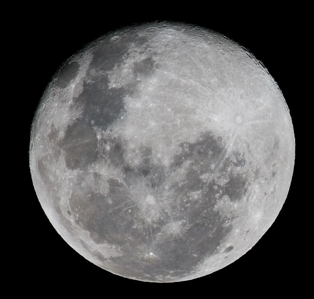 The Moon Camera data Camera Canon EOS 400D Lens Canon EF 400mm f5.6L w/ 1.4x teleconverter Focal length 560 mm Aperture f/10 Exposure time 1/60 s Sensivity ISO 100